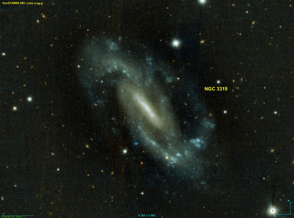 Image created using the Aladin Sky Atlas software from the Strasbourg Astronomical Data Center and Pan-STARRS (Panoramic Survey Telescope And Rapid Response System) public data.